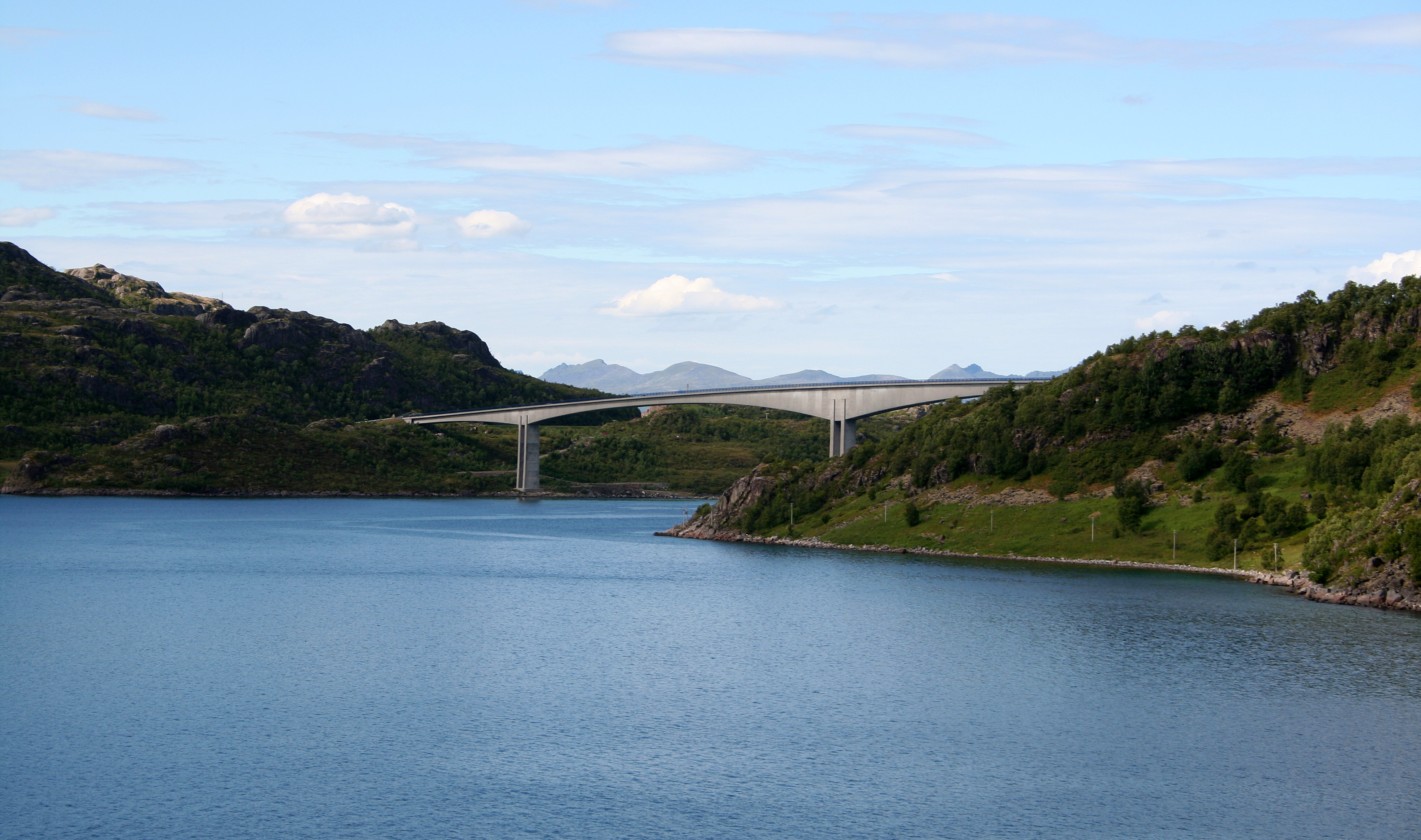 Raftsund Bridge (Raftsundbrua) in Hadsel, Norway, seen northwards. The bridge is 711 metres long and was opened on 6 November 1998. Austvågøya island is on the left, Hinnøya island on the right.